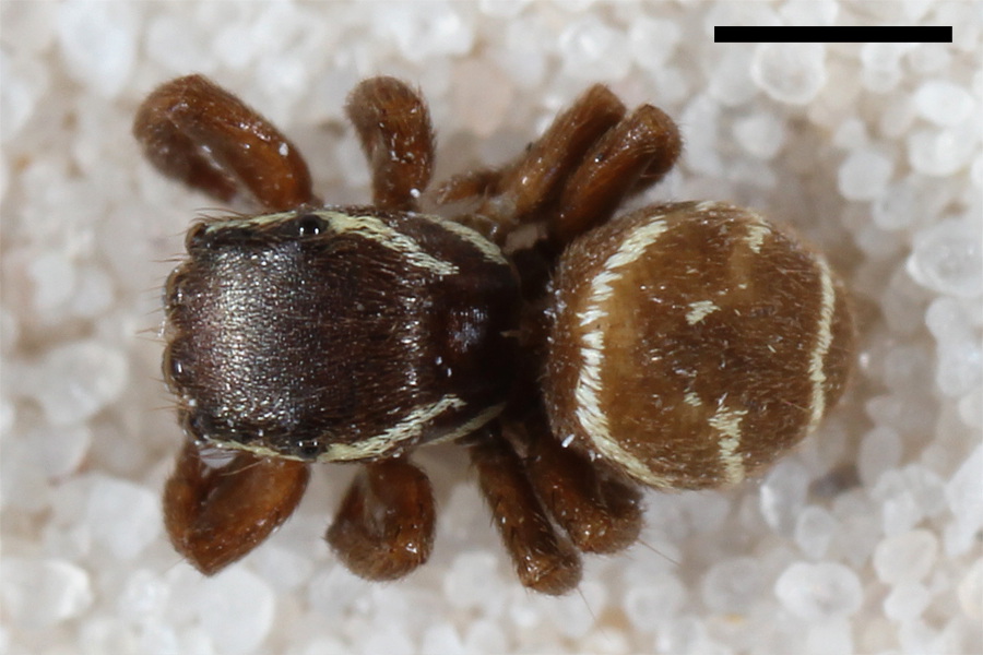 Preserved specimen of adult female Zygoballus incertus jumping spider. Collected in 1993 at Estación Biologica La Selva, Heredia, Costa Rica. Species determined by G. B. Edwards. Scale equals 1 mm.